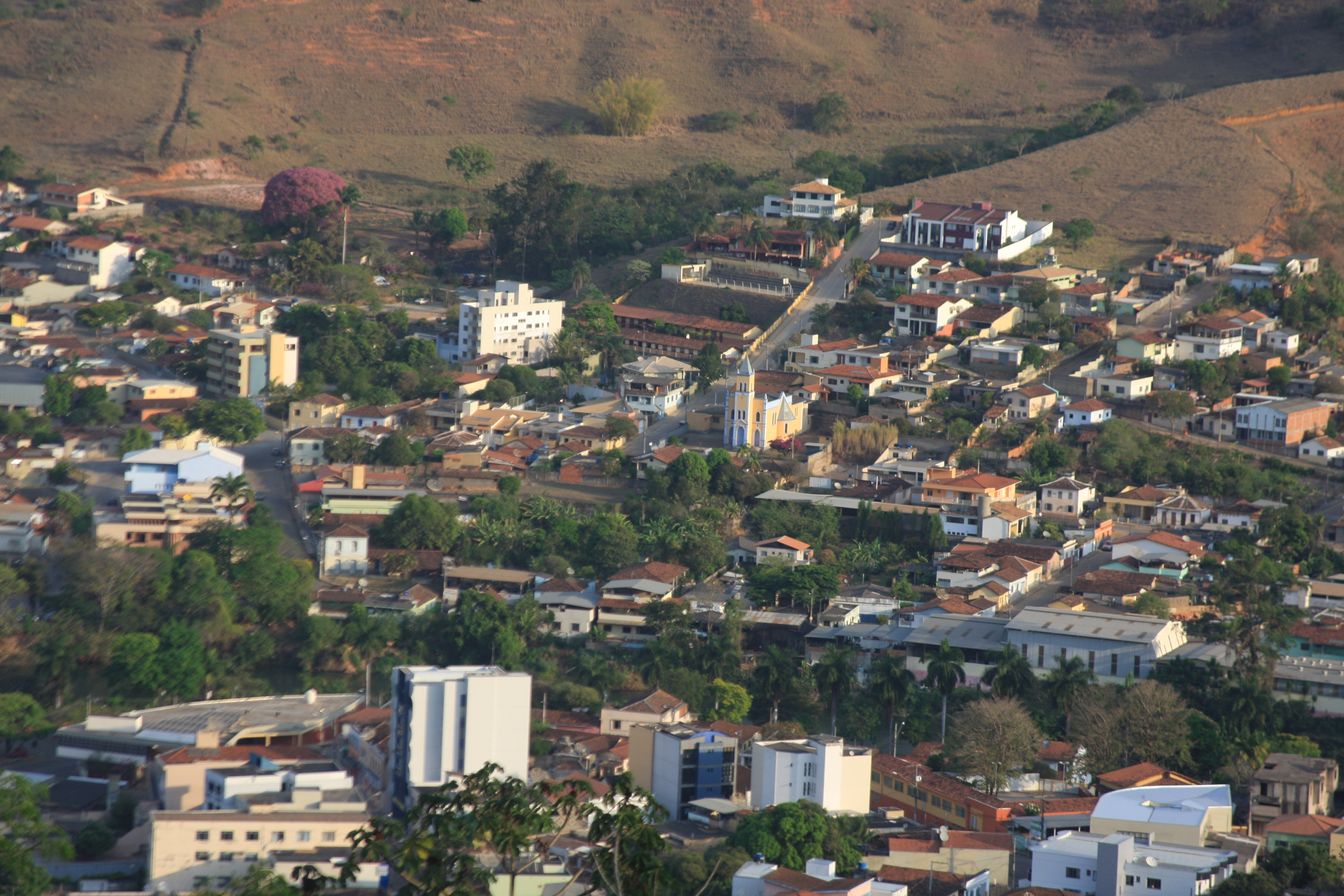 Partial view of Nova Era, Minas Gerais, Brazil, with the Our Lady of the Rosary Church in the center.